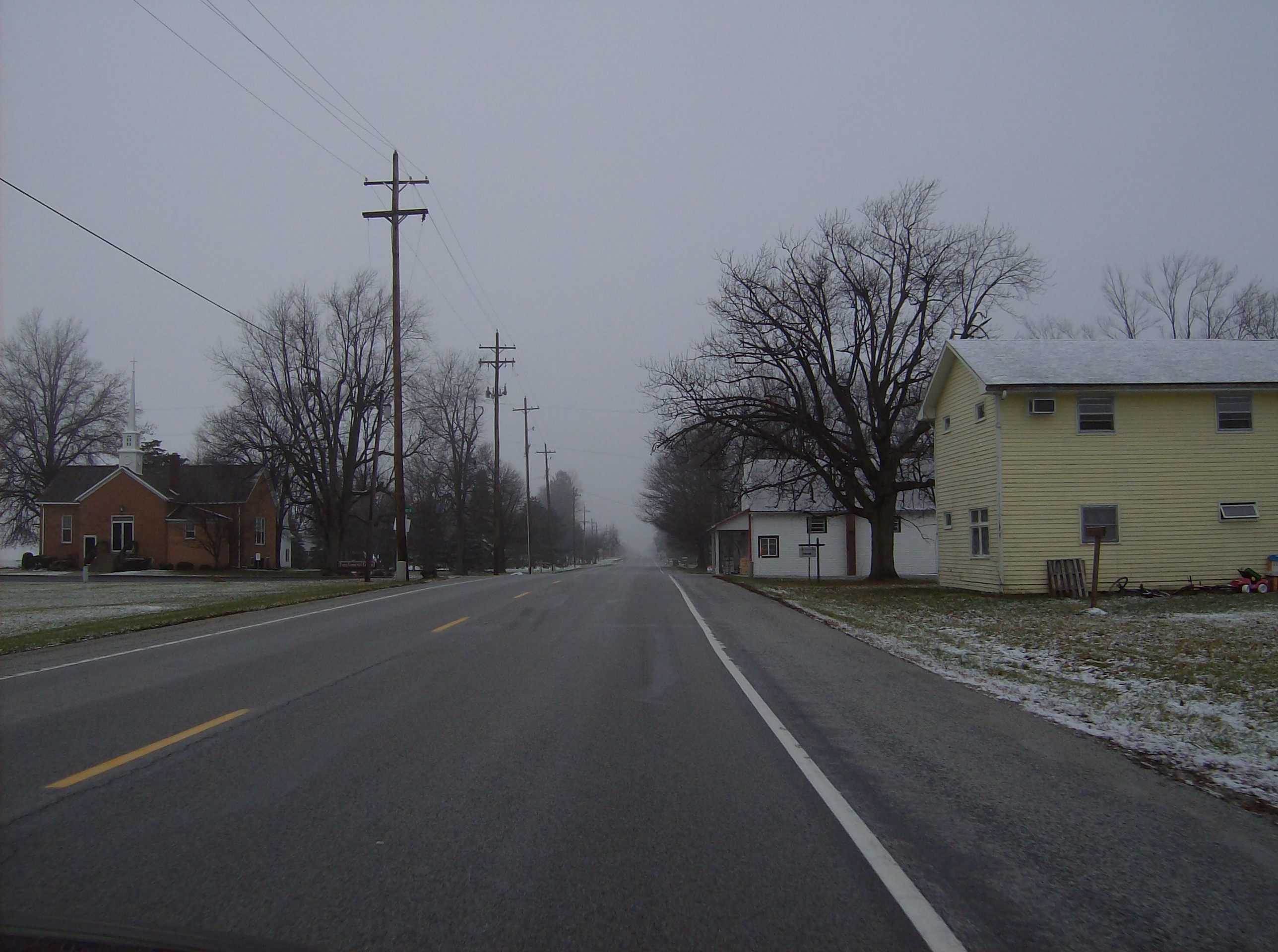 Along westbound State Road 26 in Phlox, an unincorporated community in southern Union Township, Howard County, Indiana, United States.